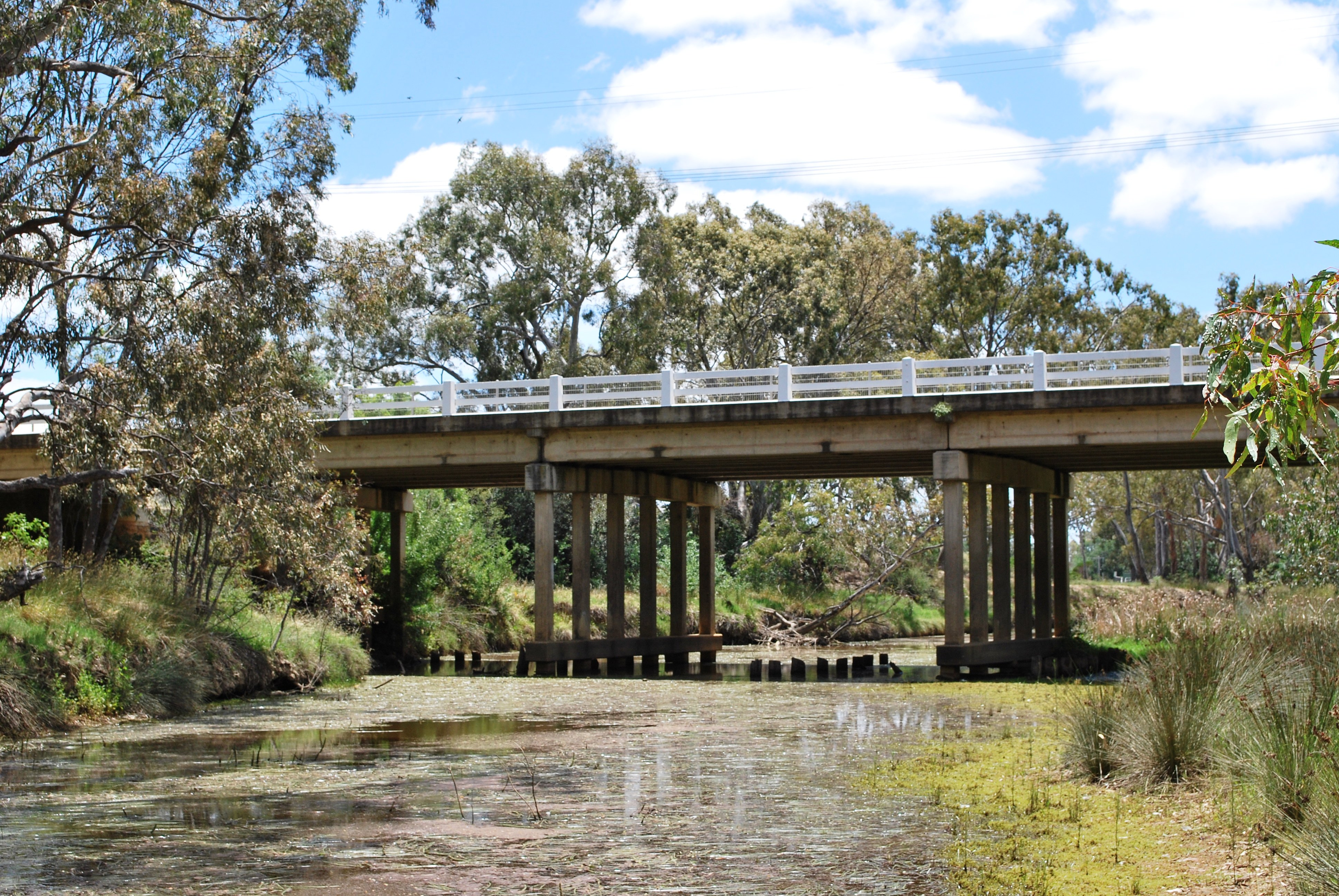 The Avoca River at Avoca, Victoria